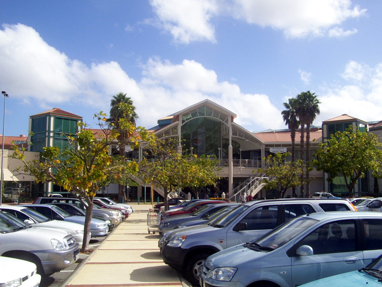 Main entrance of the Morley Galleria shopping centre in Morley, Western Australia. Taken with Kodak DX3215 digital camera